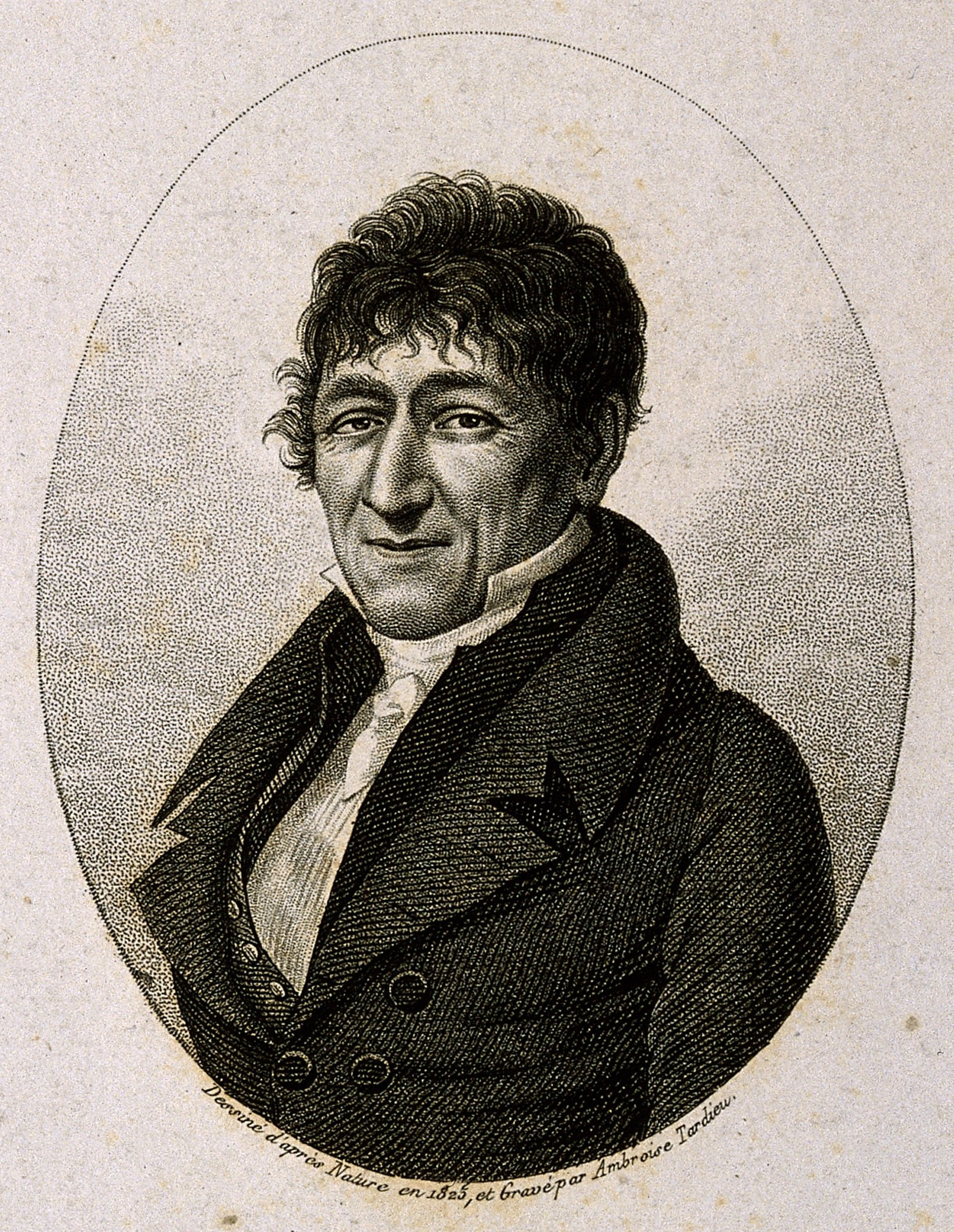 Jean-Louis Marie Poiret. Stipple engraving by A. Tardieu, 1825, after himself. Iconographic Collections Keywords: portrait prints; stipple prints; Jean-Louis-Marie Poiret